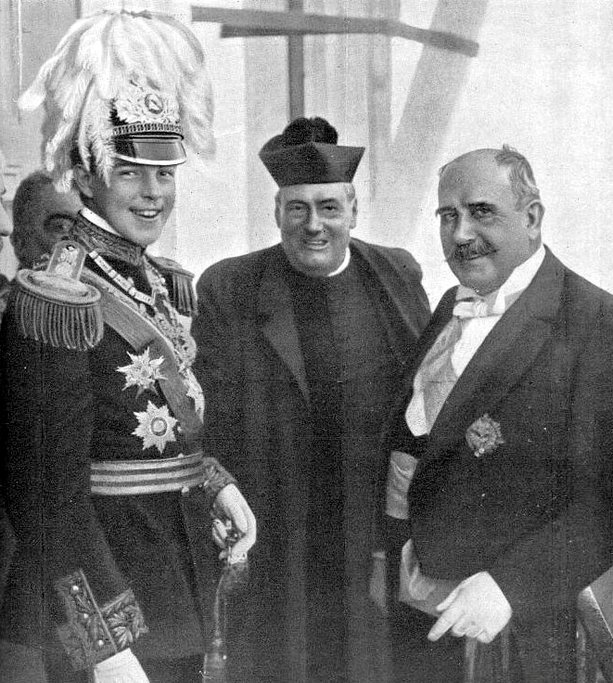 no porto